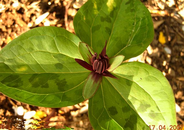 Trillium stamineum — Wake robin trillium.